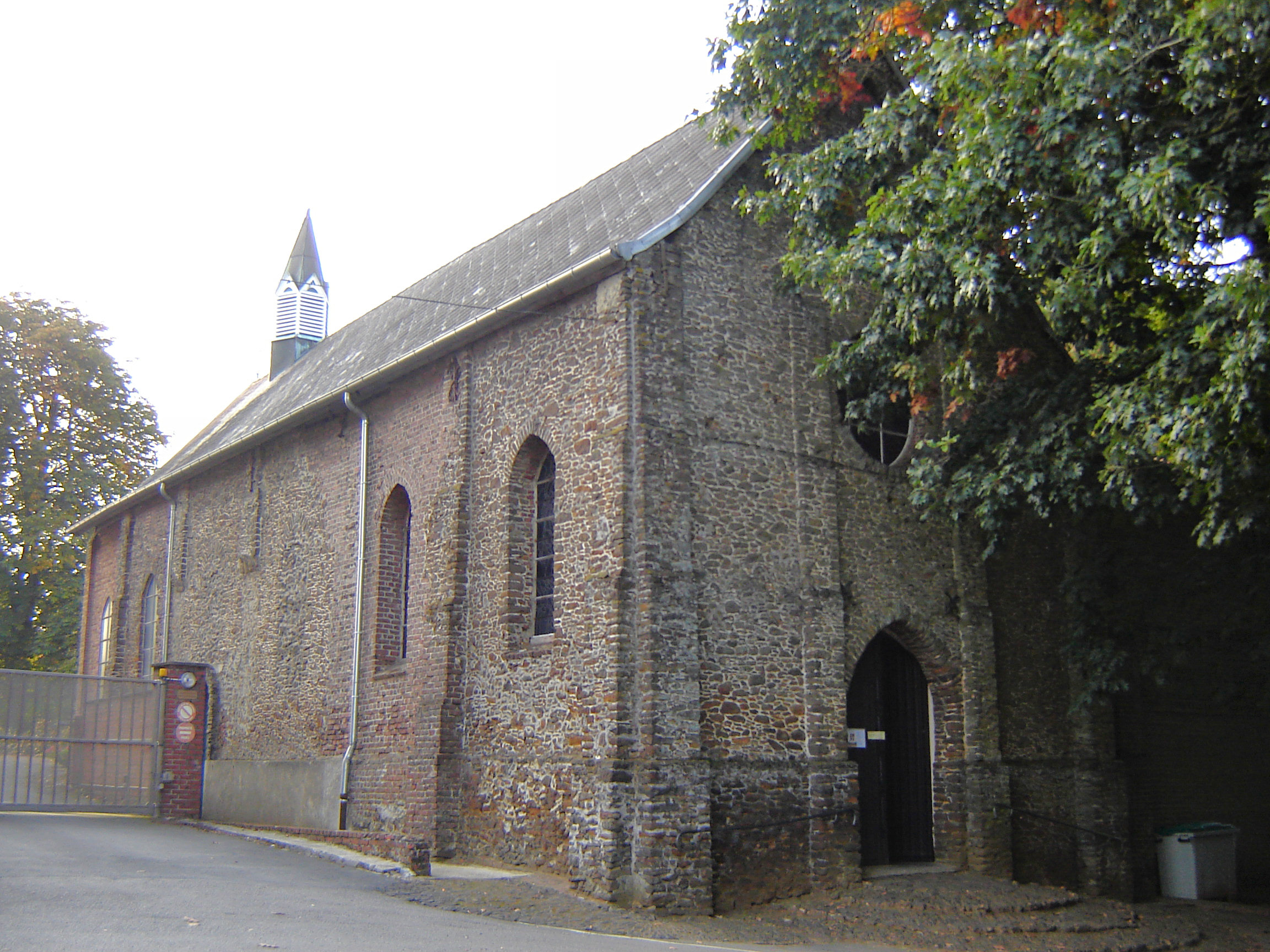 Chapel of Saint Bernard of the Abbaye du Mont des Cats (Mont des Cats abbey). Godewaersvelde, Nord, Nord-Pas-de-Calais, France